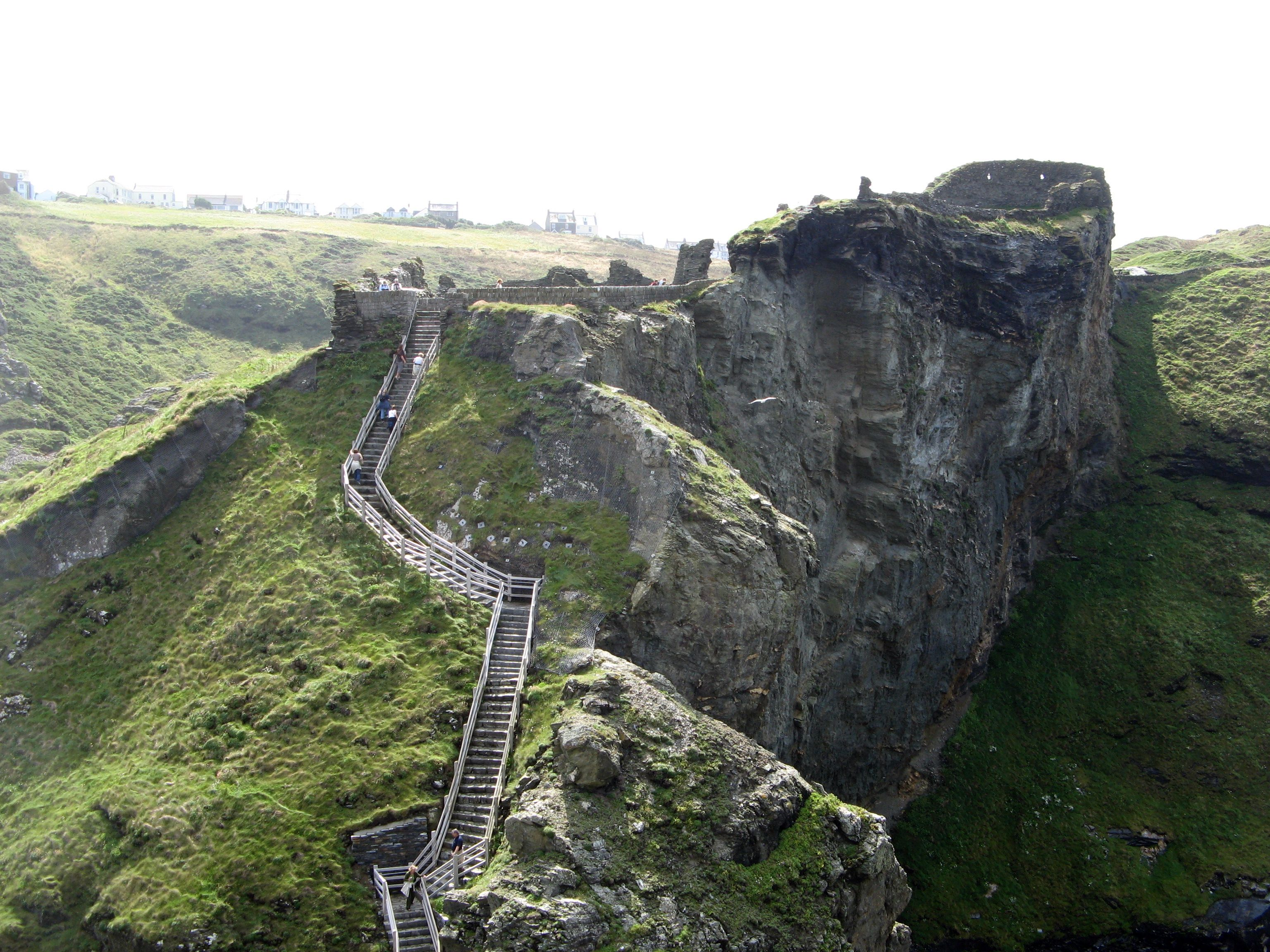 Mainland Courtyard of Tindagel Castle, Cornwall, England